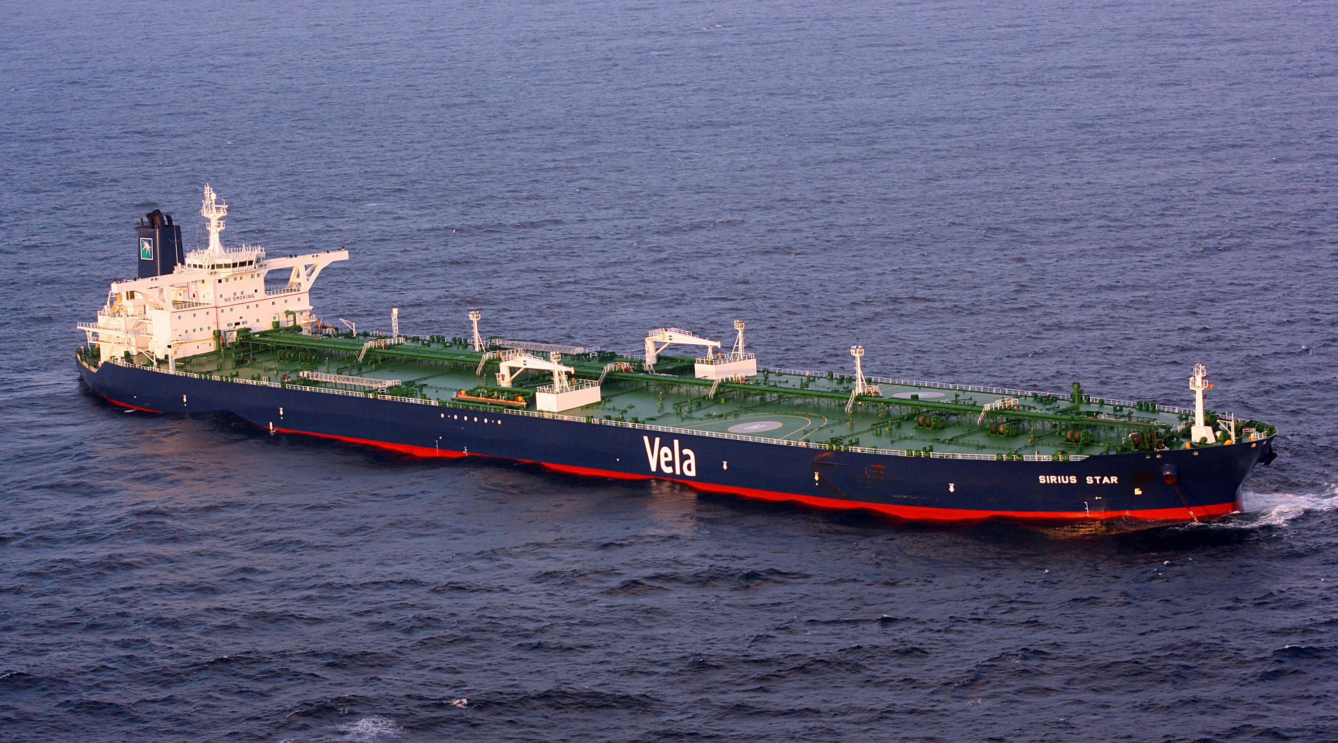 The Liberian-flagged oil tanker MV Sirius Star is at anchor Wednesday, Nov. 19, 2008 off the coast of Somalia. The Saudi-owned very large crude carrier was hijacked by Somali pirates Nov. 15 about 450 nautical miles off the coast of Kenya and forced to proceed to anchorage near Harardhere, Somalia. Indian Ocean. 081119-N-0075S-004